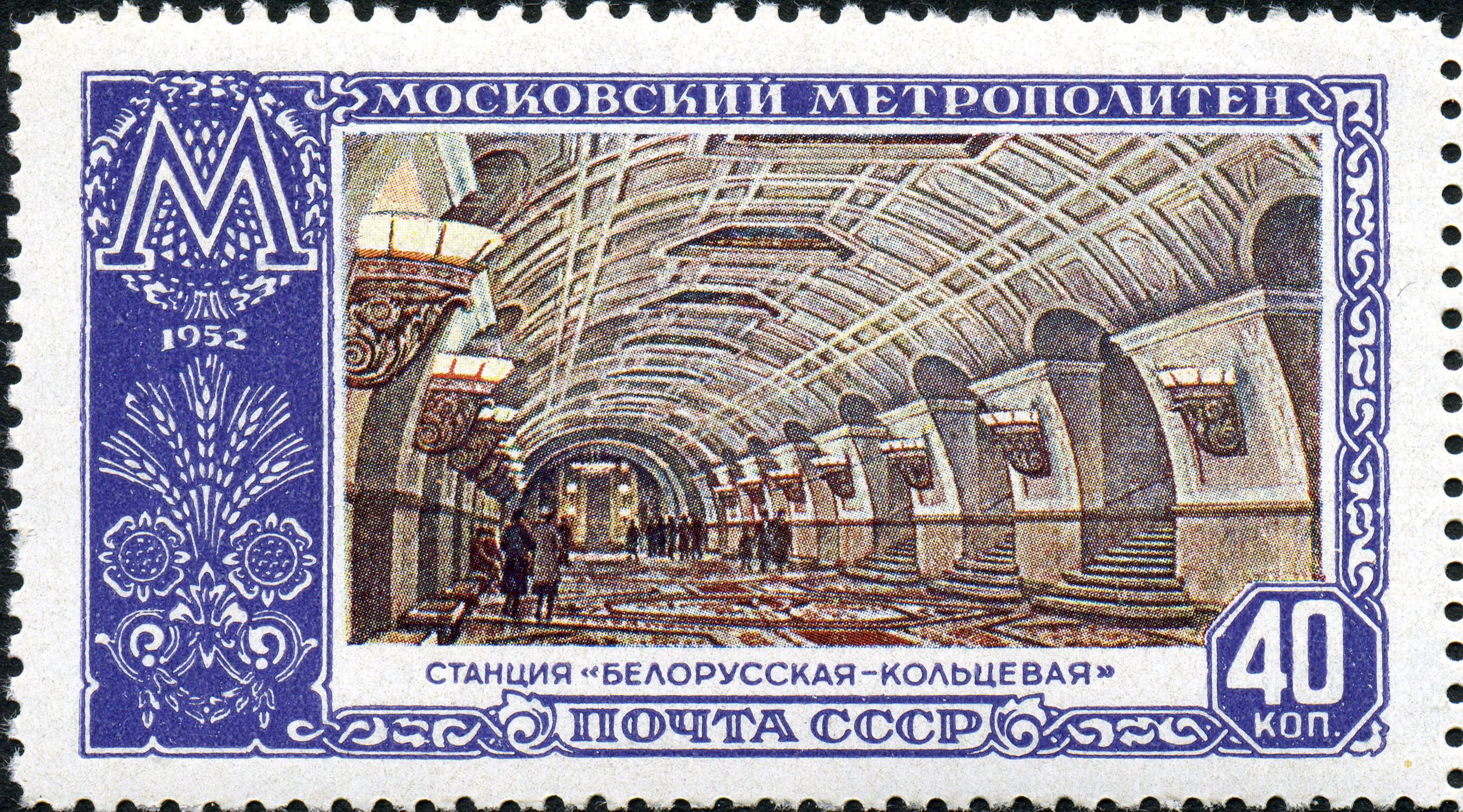 Stamp of the Soviet Union, Belorusskaya-Koltsevaya (Moscow Metro station), 1952, CPA #1710.